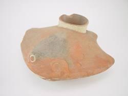 Moche Mantaray. Larco Museum Collection. Lima, Peru.